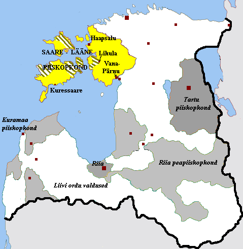 Bishopric of Ösel-Wiek